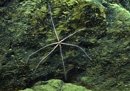 A sea star of the genus Freyastera, observed around 4500m deep close to Porto Rico.